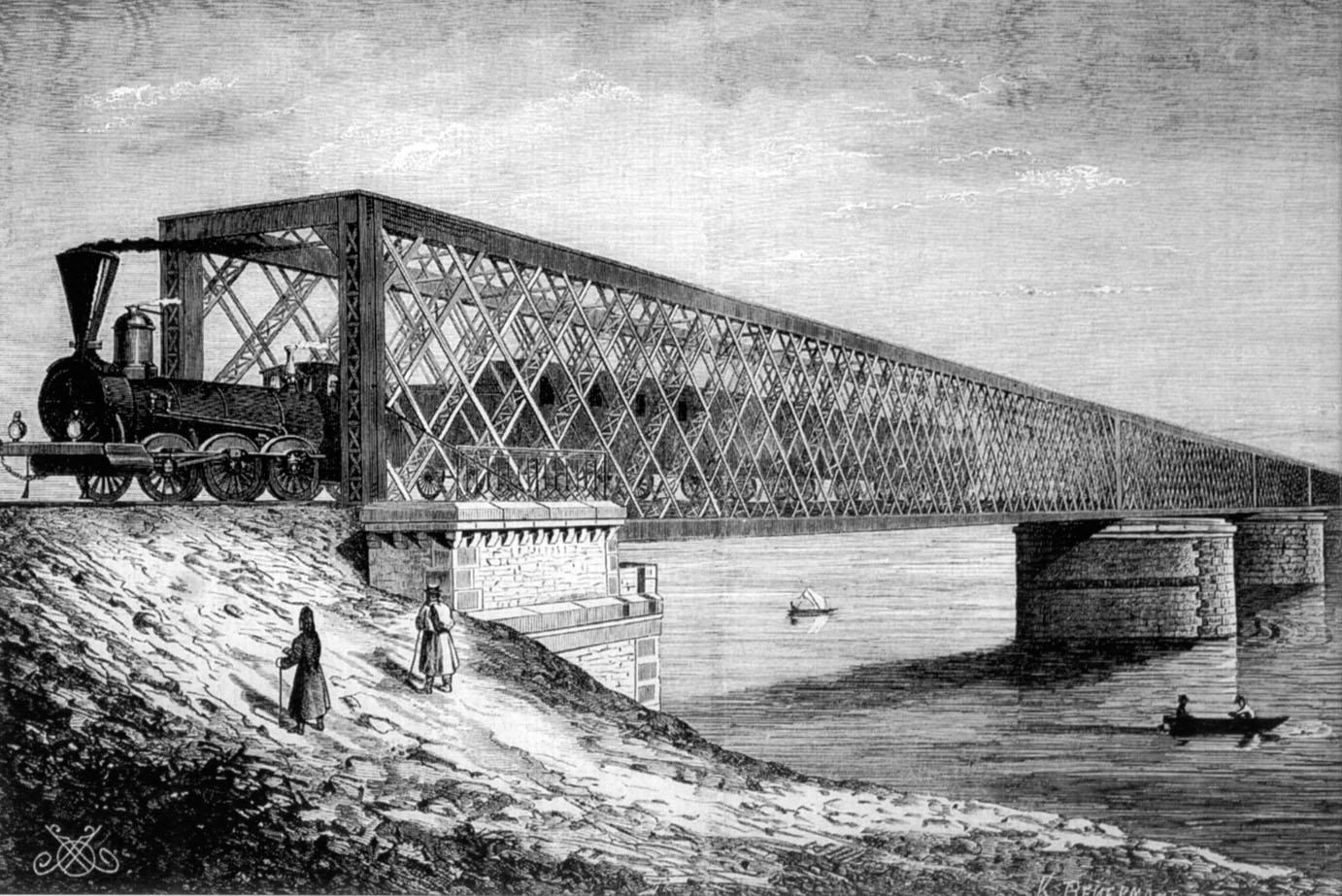 Railway bridge in Kyiv (now Ukraine). Engraving made by K. Weierman of the painting by O. Adamov. 1870.